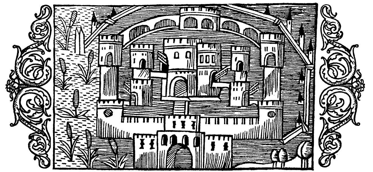 The castle of Årnäs (in earlier days Aranäs) is today only a ruin, located on the south shore of Lake Vänern. On the woodcut we see it in old days. The main gate at the front is the only existing entrance to the land side. To the left the swamps on the south side of the castle. At the water side, the castle is surrounded by wooden bars, held together with chains.